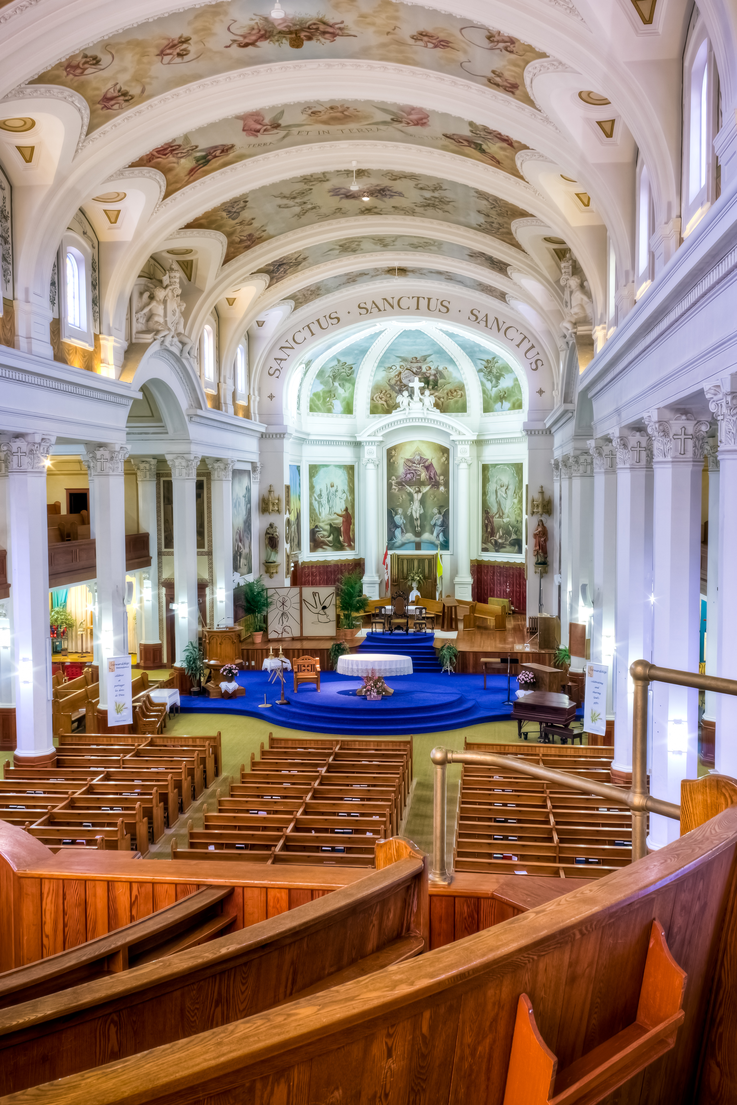 La Cathédrale is a Municipal Heritage Property in the town of Gravelbourg, SK. It was built in AD 1918-1919 and is a French Canadian Catholic Cathedral (Gravelbourg being a predominantly French Canadian town). The interior of the church features unique paintings completed by Fr. Charles Mallard, a French-born priest who served as the cathedral's first pastor. He used people of Gravelbourg as models for his figures.